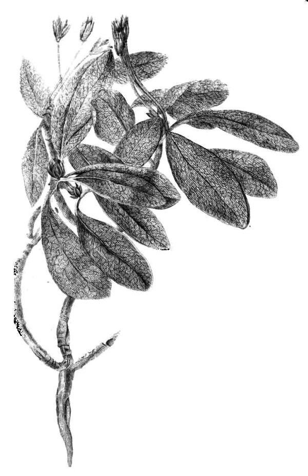 The first drowing of species Rhododendron aureum in scientific work: Flora Sibirica - Johann Georg Gmelin (1796)